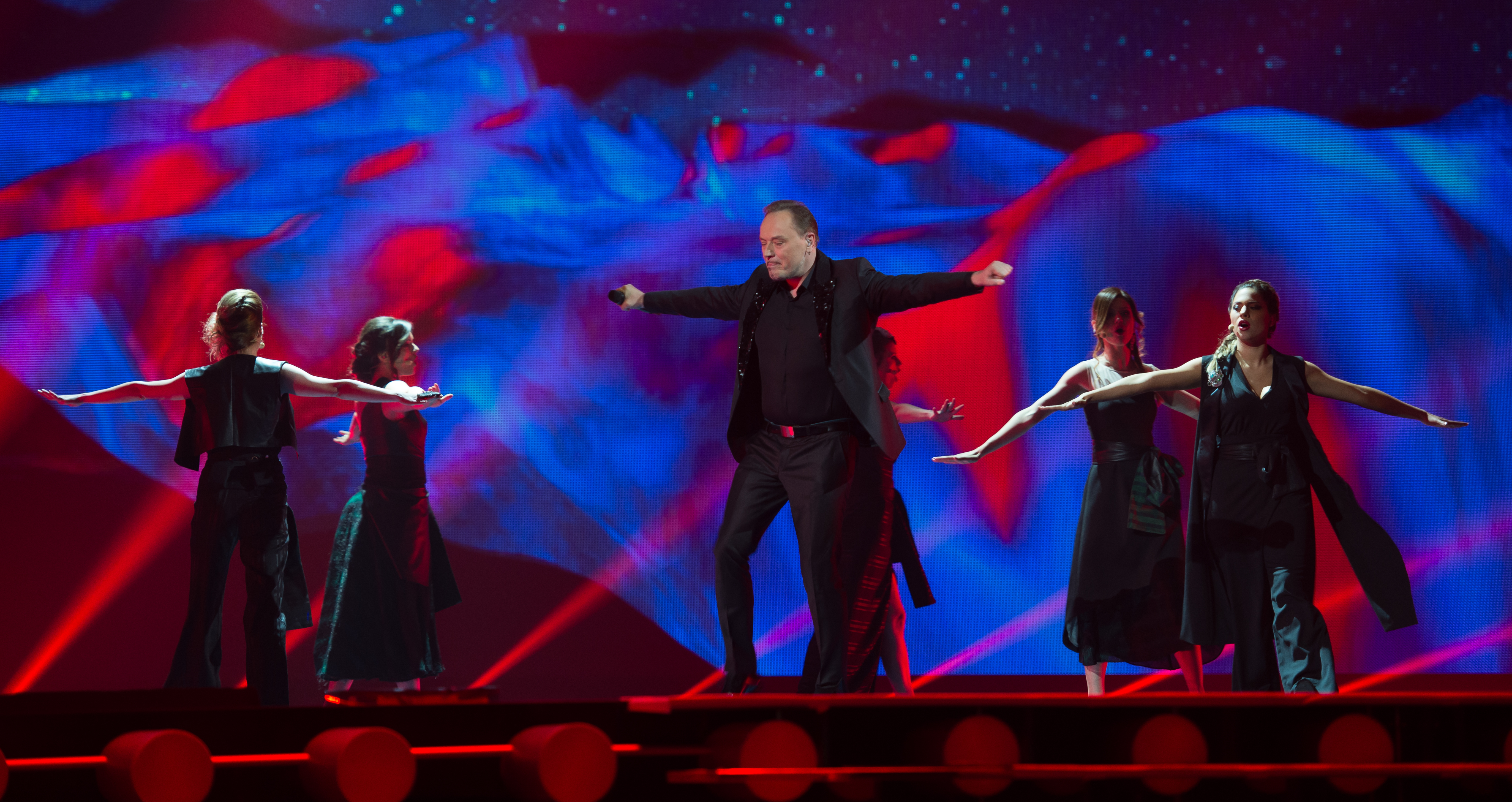 Eurovision Song Contest Vienna 2015: Knez